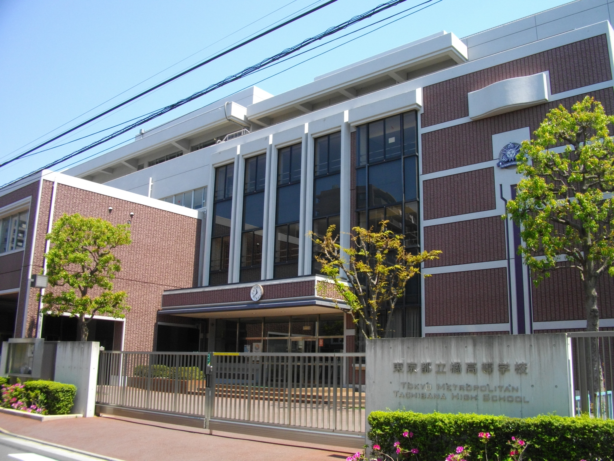 Tokyo Metropolitan Tachibana High School